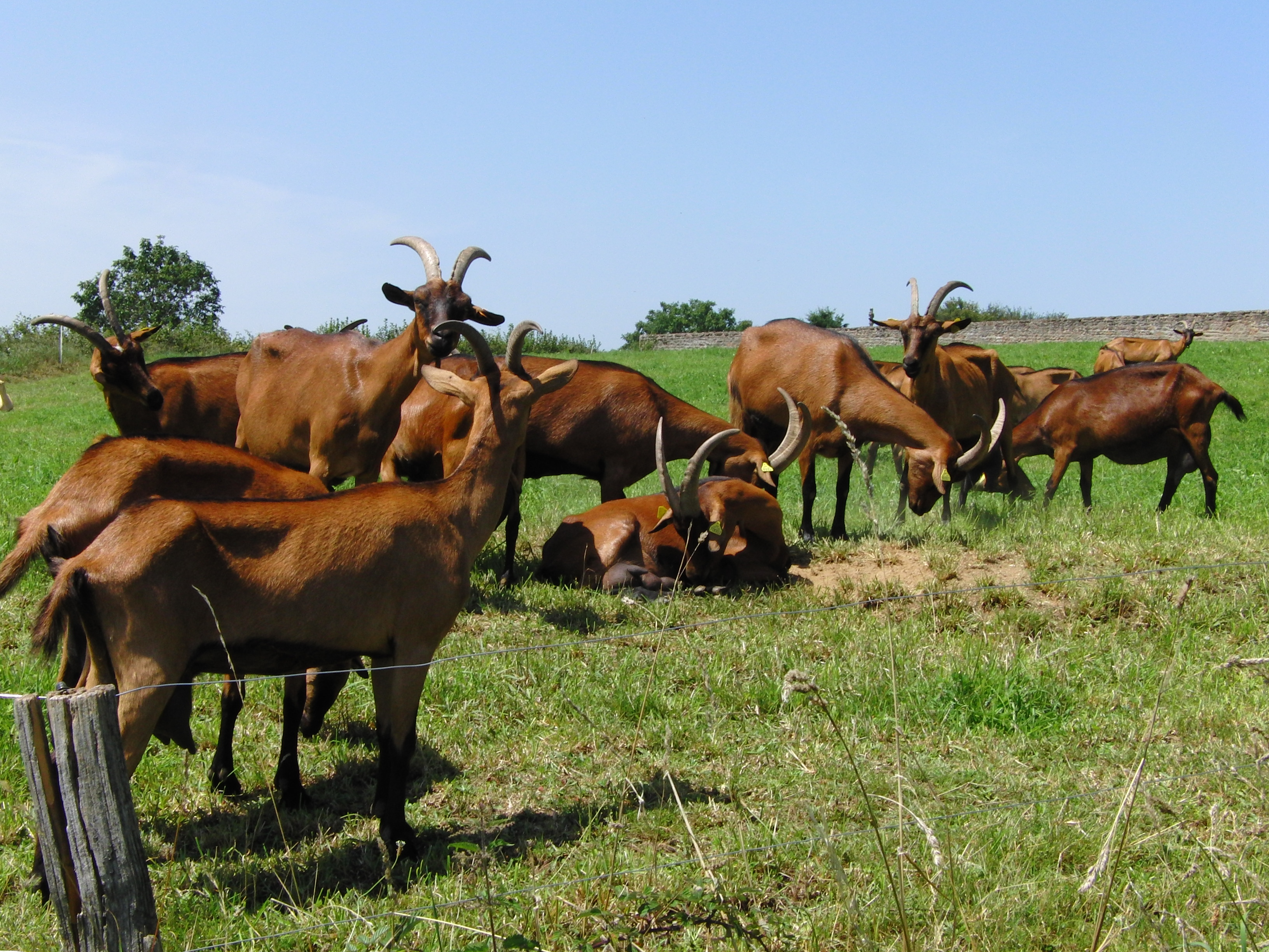 Alpine goats, Suin, Saône-et-Loire, France